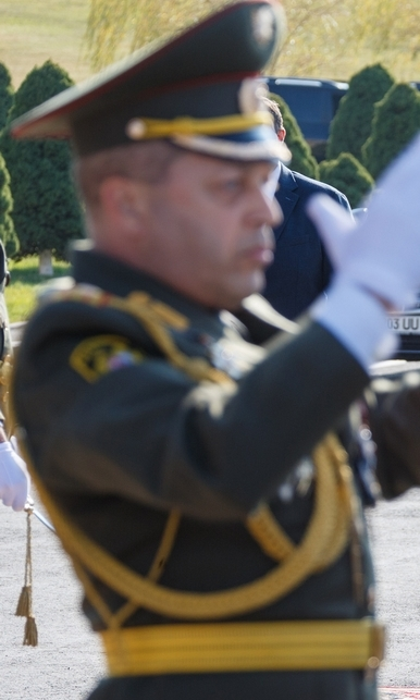 Рабочий визит Министра обороны Российской Федерации в Республику Армения